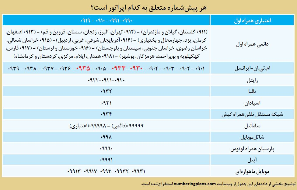 Mobile Pre-orders in Iran